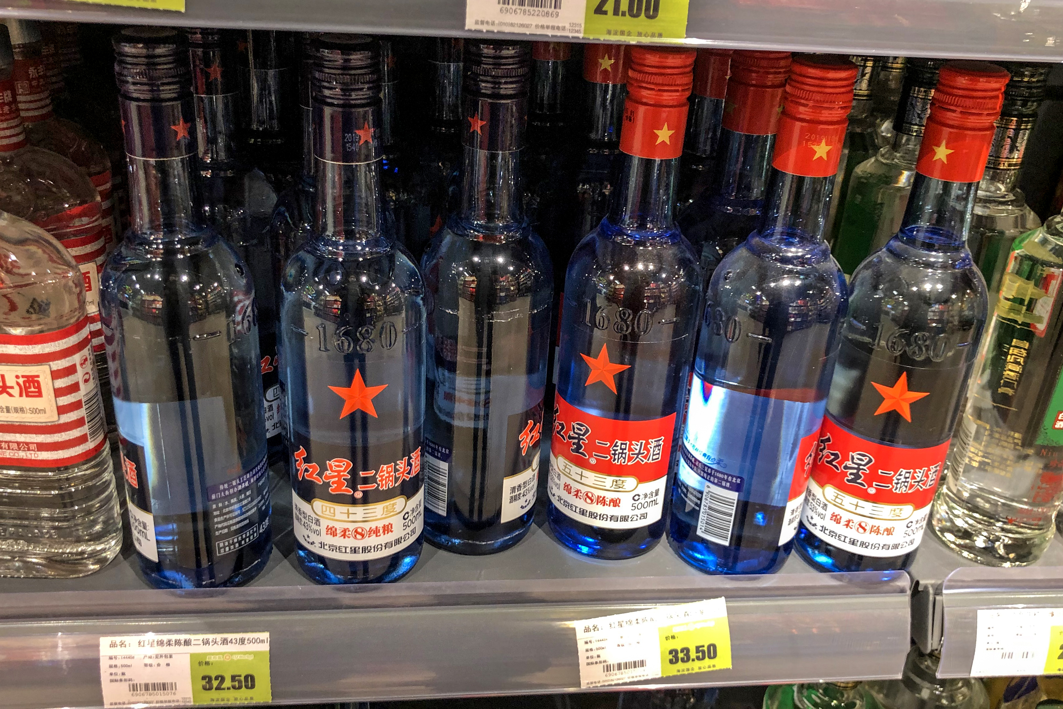 Red Star blue bottle, a milder version, comes in 43%vol and 53%vol.